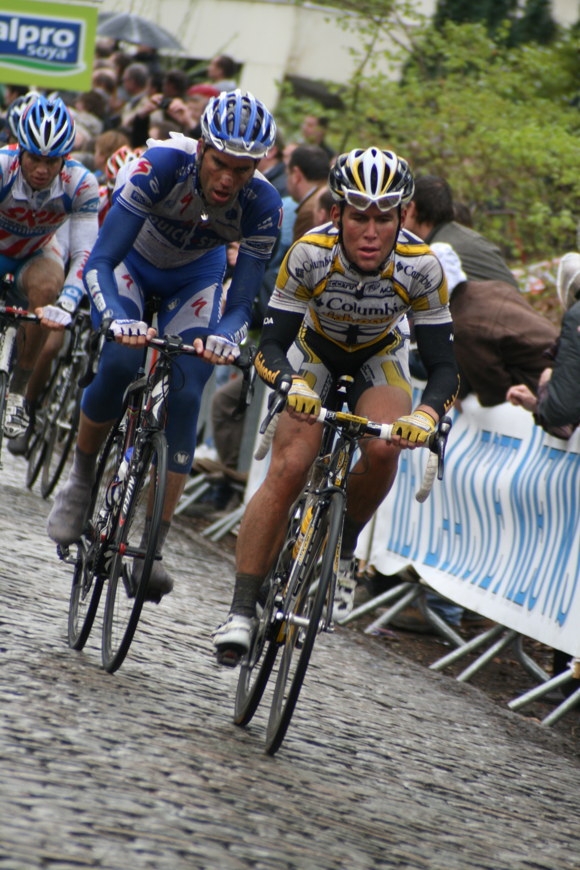 2009 Gent–Wevelgem: Maarten Wijnants (left) and Mark Cavendish (right)